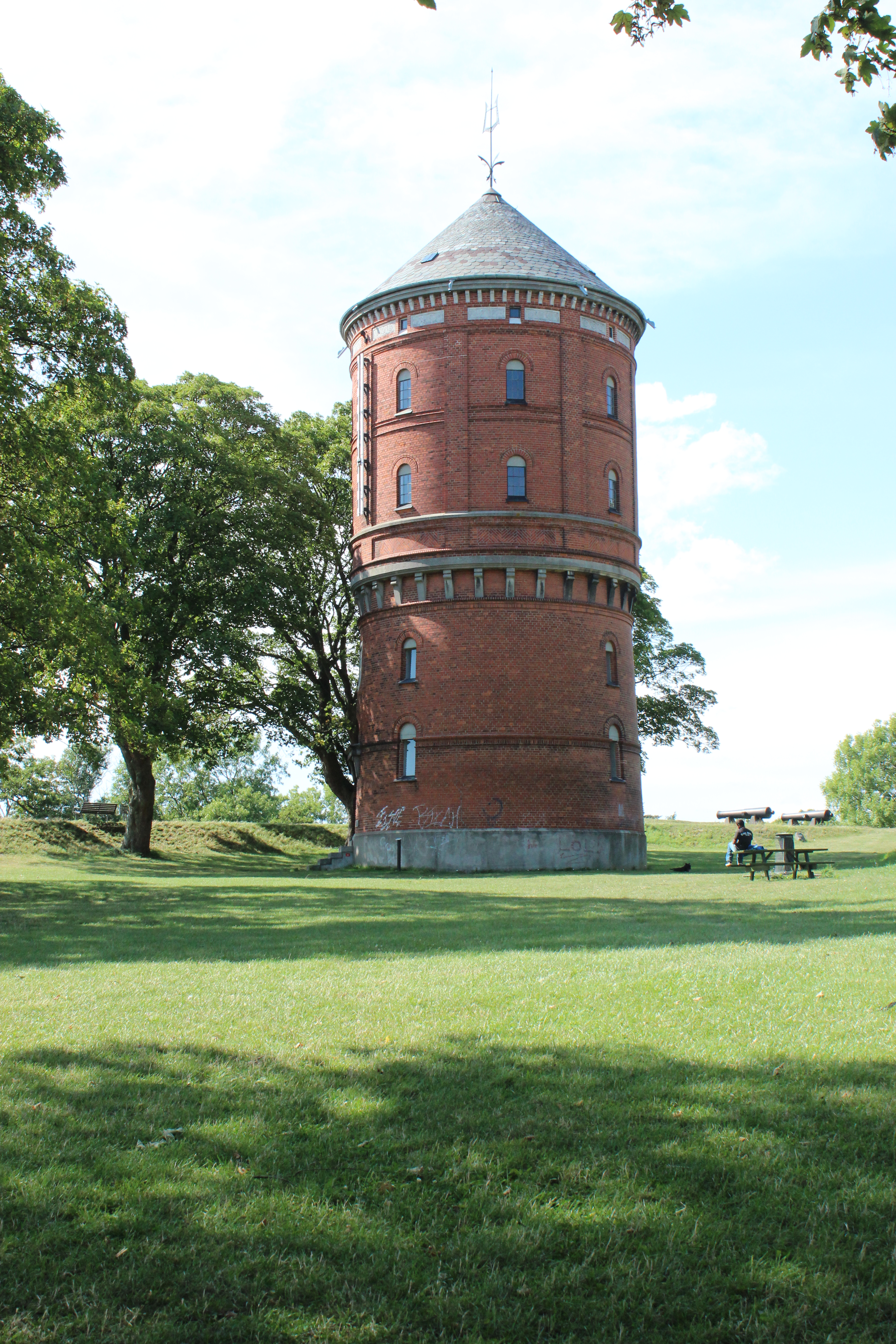 Nyborg Watertower in Nyborg, Funen.